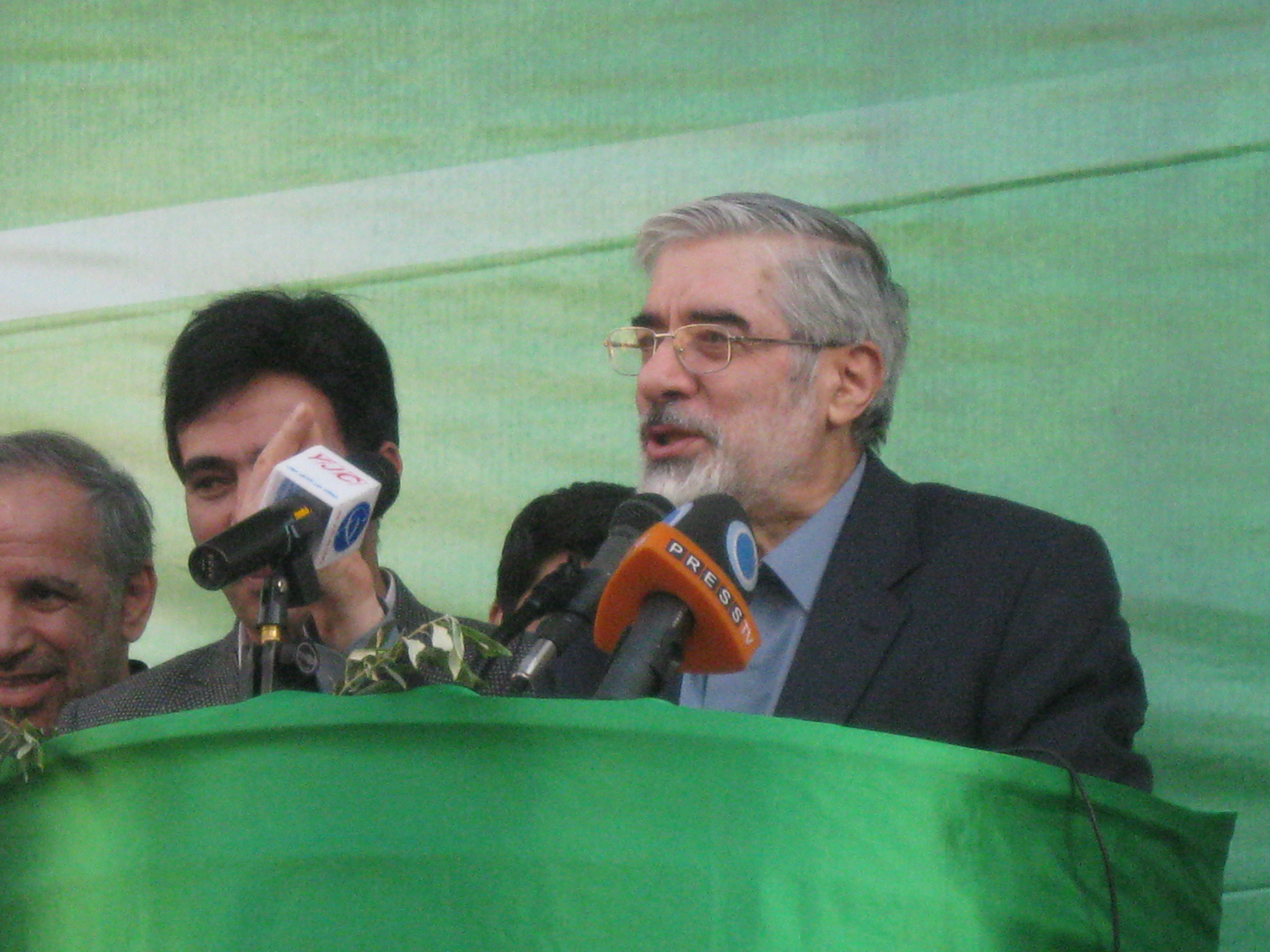 Mir-Hossein Mousavi iranian former prime minister in Zanjan